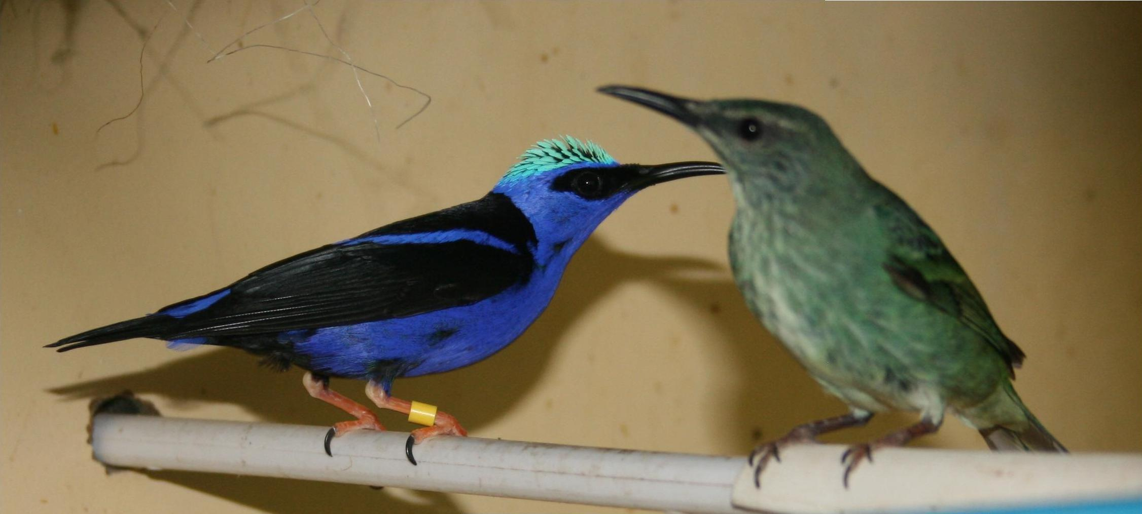 This picture taken from an Israeli breeder aviary On the left is the Red legged Honeycreeper male and on the right is the female